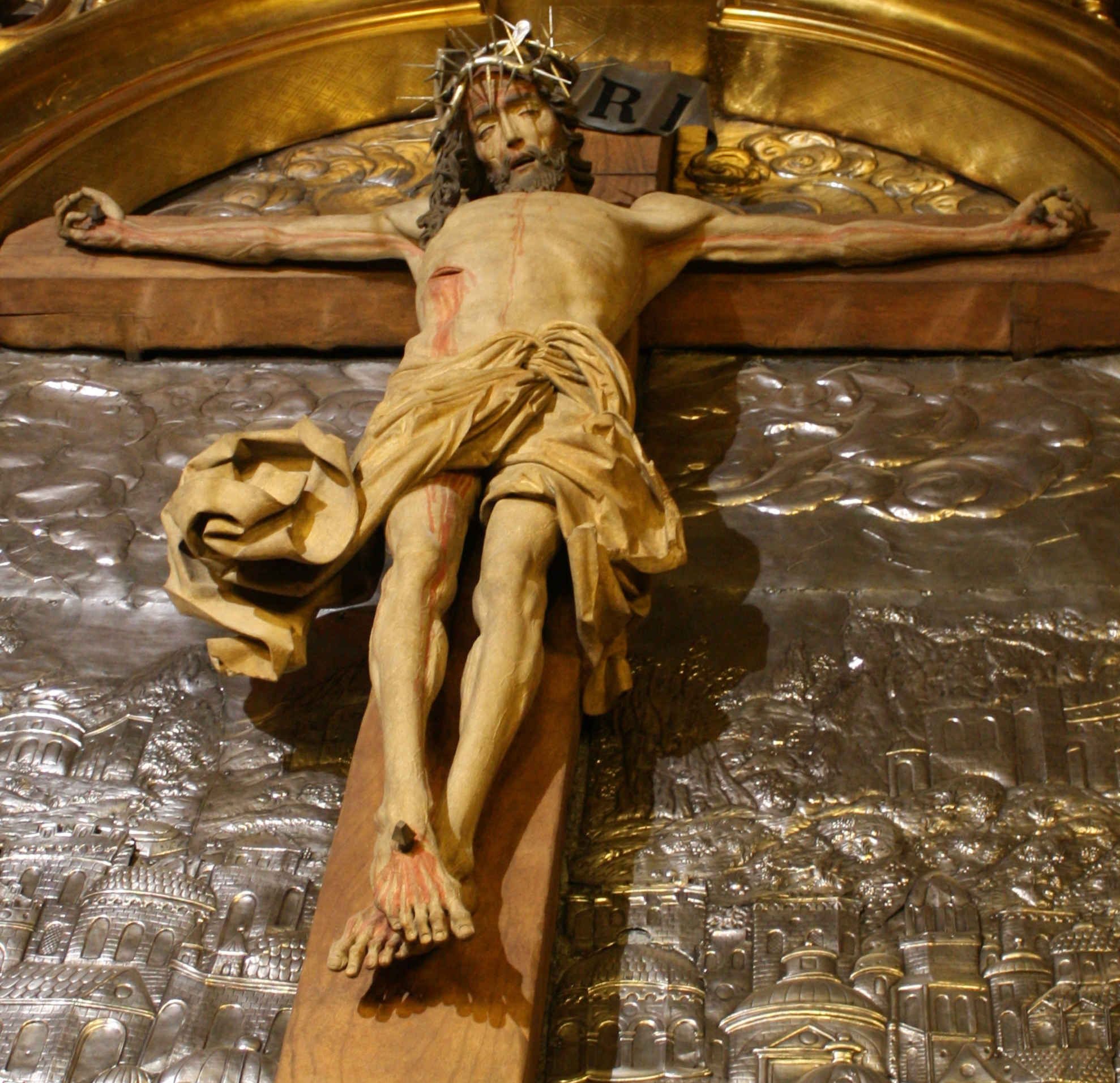 Stone crucifix in St. Mary Church in Cracow. Work of Veit Stoß (detail)